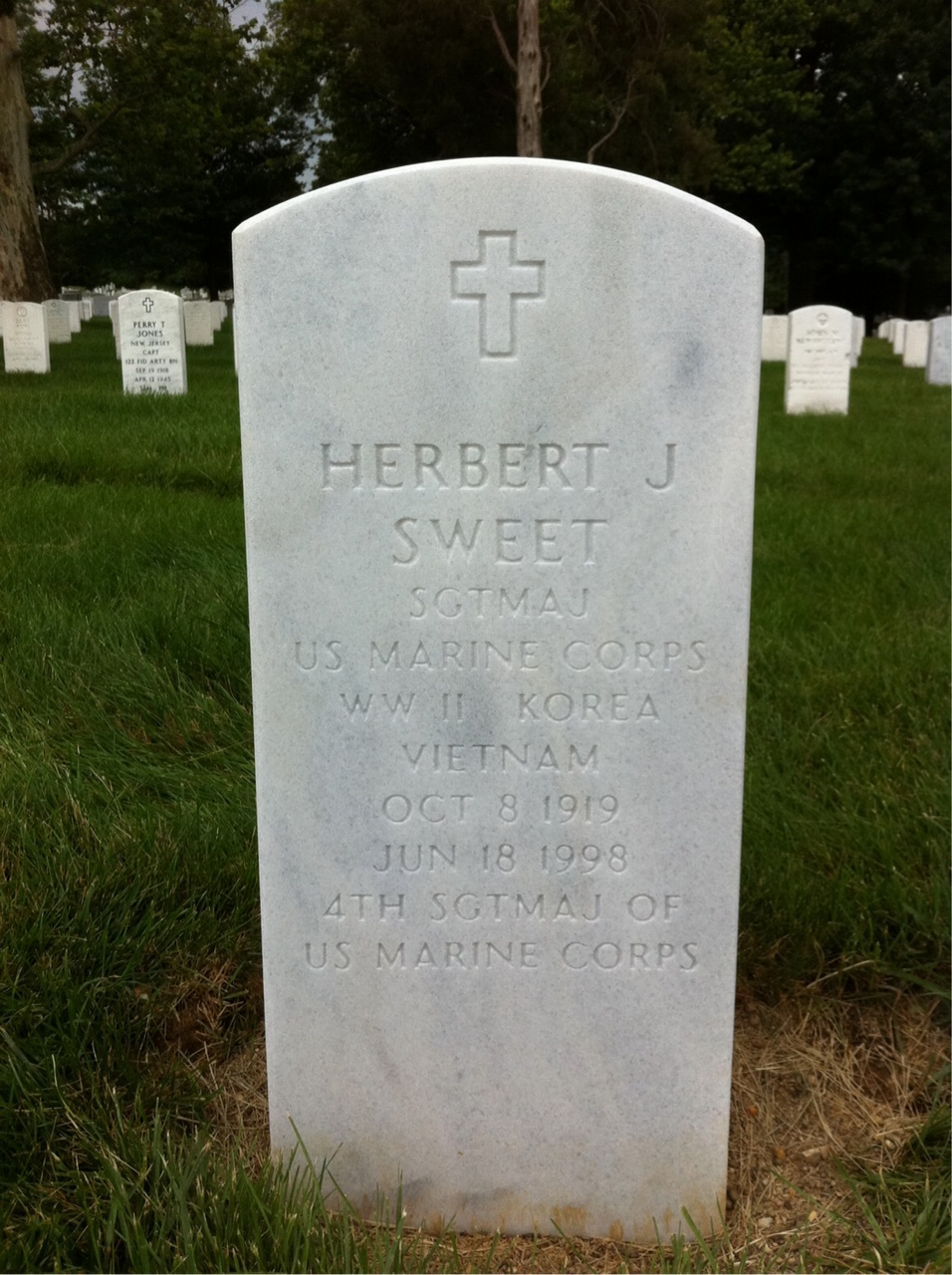 Grave of Herbert J. Sweet at Arlington National Cemetery